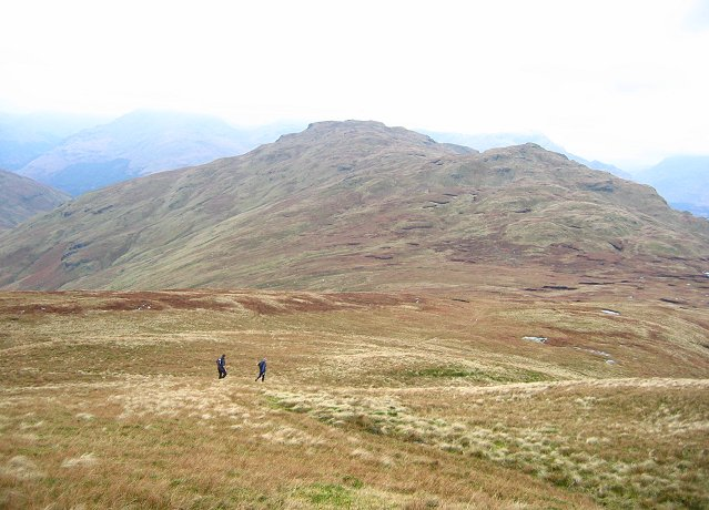 North ridge of Beinn Bhreac. Runners descending the north ridge of Beinn Bhreac.